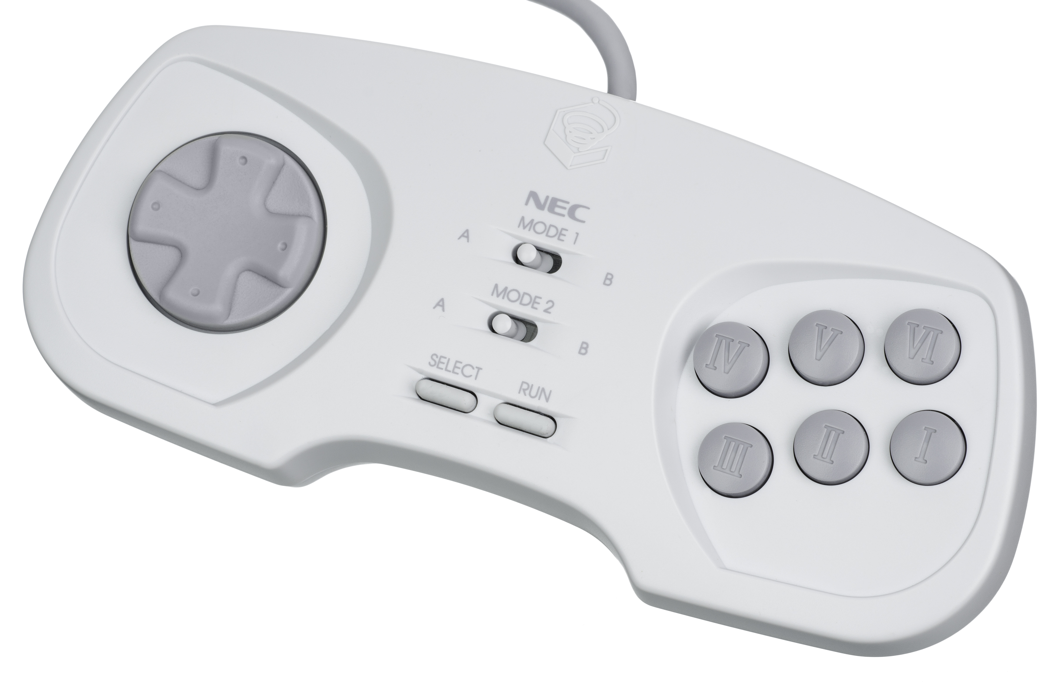 The controller for a NEC PC-FX video game console. The PC-FX is a fifth-generation gaming console by NEC. Released only in Japan in 1994, the PC-FX was an unsuccessful follow-up to the PC Engine console line. It was a CD-based system whose design was reminiscent of a PC tower.